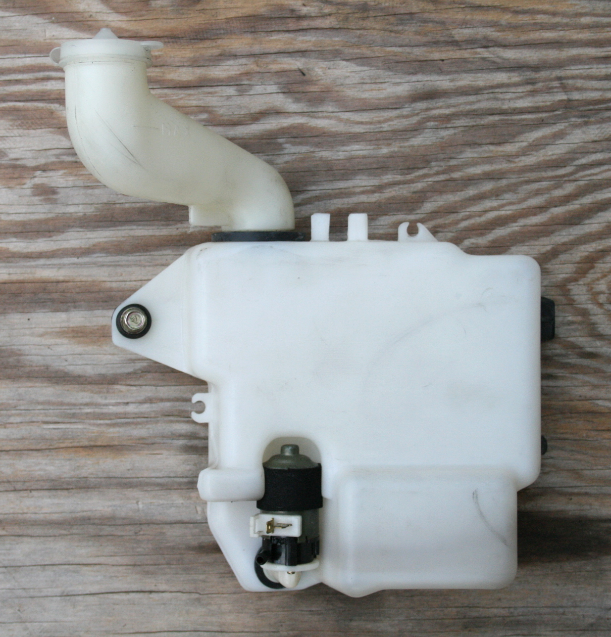 Rear windshield washer fluid tank from a 1990 Geo Storm GSi. This is a distinguishing feature of the GSi.